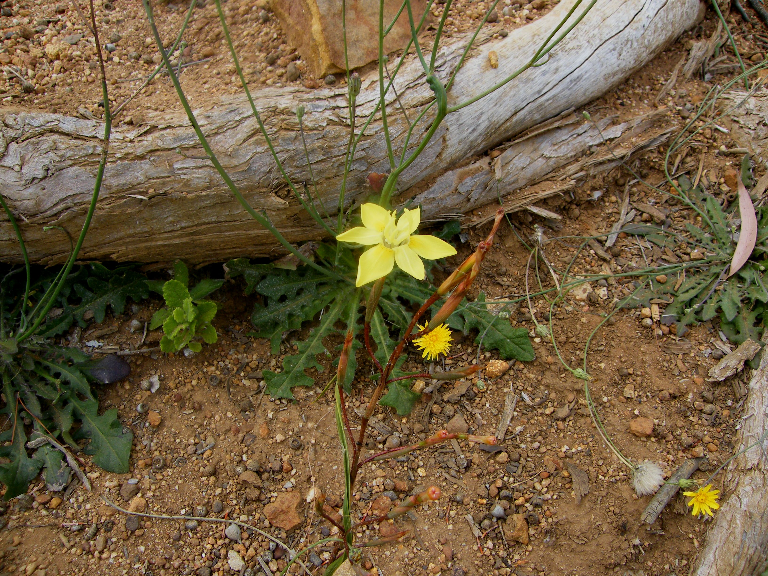 Moraea